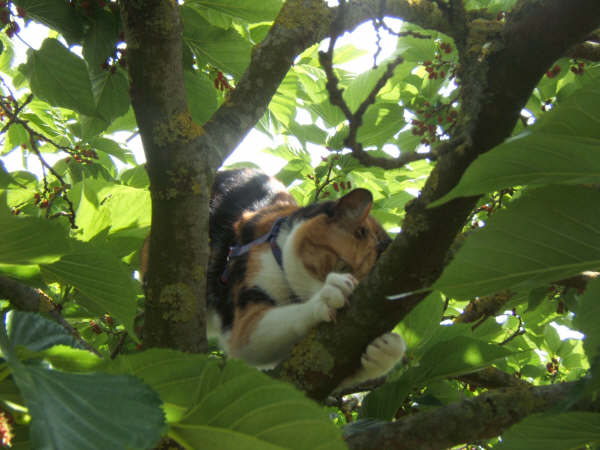 Cat grabbing a tree branch